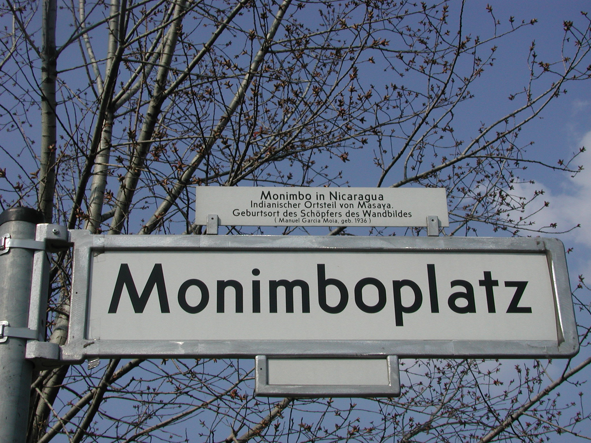 Monimbo square (Monimboplatz) in Berlin